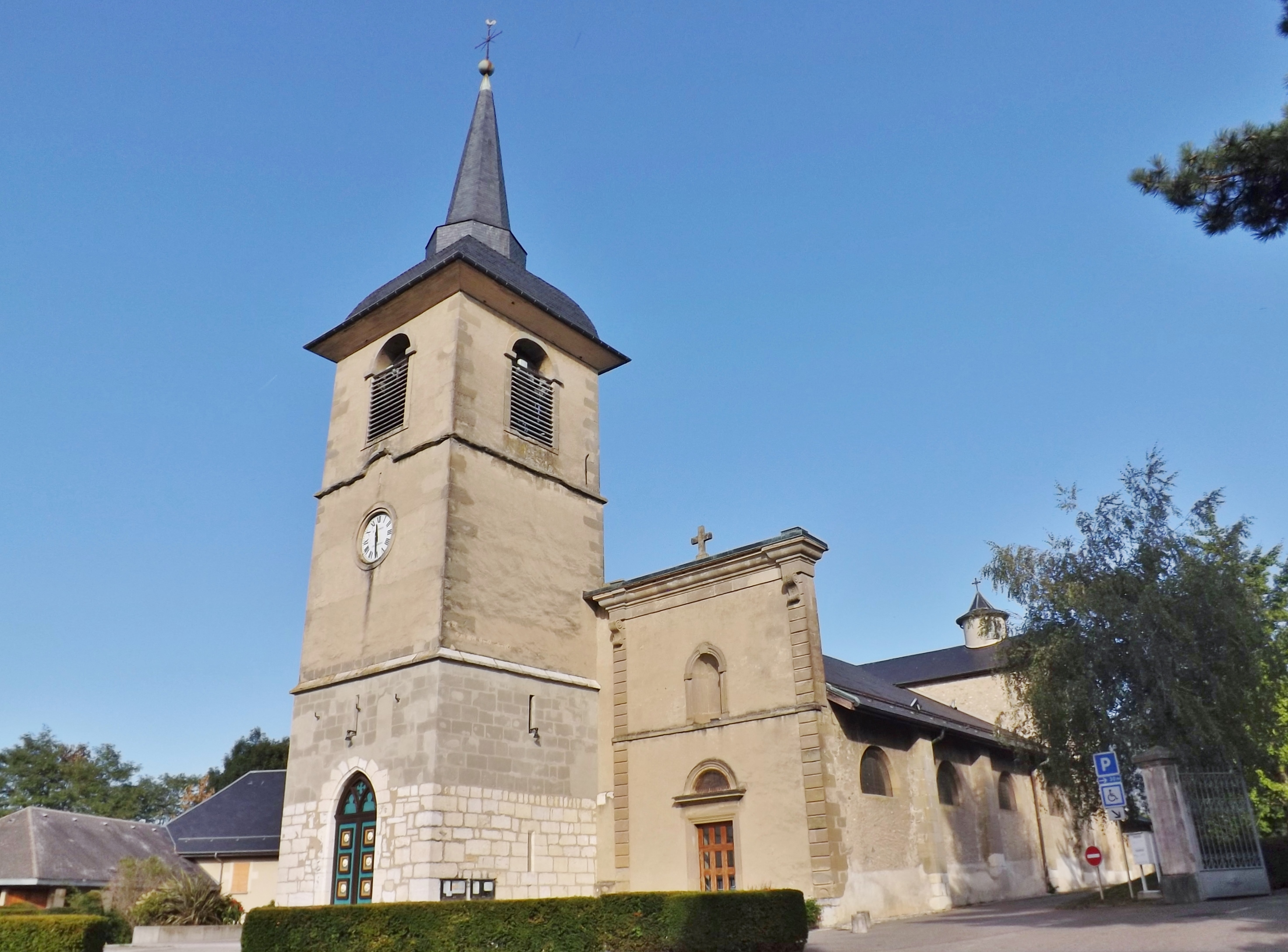 Sight of the southern side of the église Saint-Jean-Baptiste church of La Motte-Servolex, near Chambéry in Savoie, France.